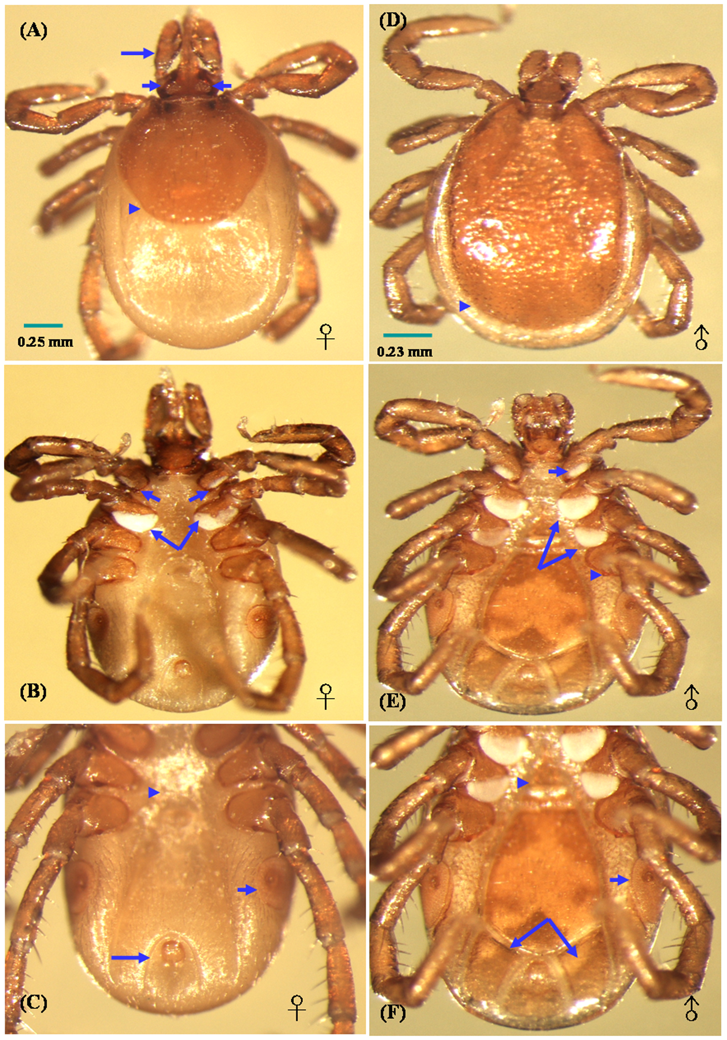 Light micrographs of female (A, B, and C) and male (D, E, and F) Ixodes ovatus ectoparasitized on cat in Taiwan.A, Dorsal view of female tick showing one pair of long palp (long arrow), oval porose areas (short arrows) situated at the subpentagonal basis capituli and the oval-shaped scutum covered on a half of abdomen (arrowhead); B, Ventral view of female tick showing a special transparent membrane-like structure (white sheet) covered on a third of coxae I (short arrows) and two third of coxae II (long arrows); C, The genital aperture (arrowhead) is situated at a level between coxae III and IV. Laterally, the rounded spiracular plates (short arrow) contain large maculae. The oval-shaped anal groove (long arrow) encircled around the anus with a posterior opening was situated at the end of abdomen; D, Dorsal view of male tick showing the oval-shaped scutum covered on full-abdomen (arrowhead); E, Ventrally, coxae IV of male tick possess short, distinct external spurs (arrowhead), and coxae I–III was characterized with a special transparent membrane-like structure (white sheet) covered on a third of coxae I (short arrow), two third of coxae II and a half of coxae III (long arrows); F, The genital aperture (arrowhead) is situated at level between coxae III. Laterally, the oval-shaped spiracular plates (short arrow) contain small maculae. The adenal plates (long arrows) paralleled with the anus were only observed on male tick.